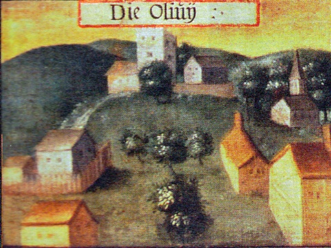 Olewig in 1589